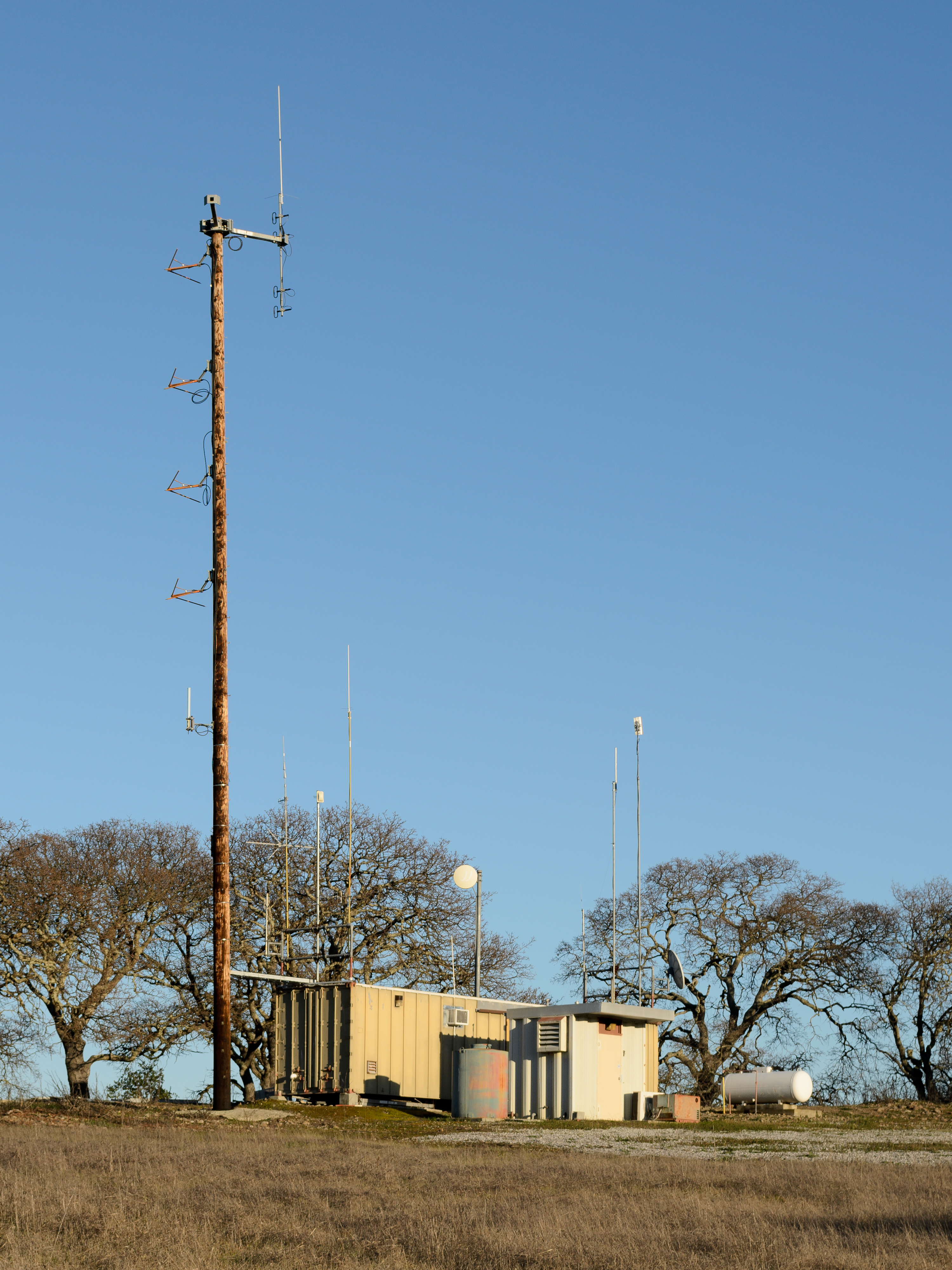 KZSU transmitter, Stanford Dish Hiking Trail, Stanford University, California.